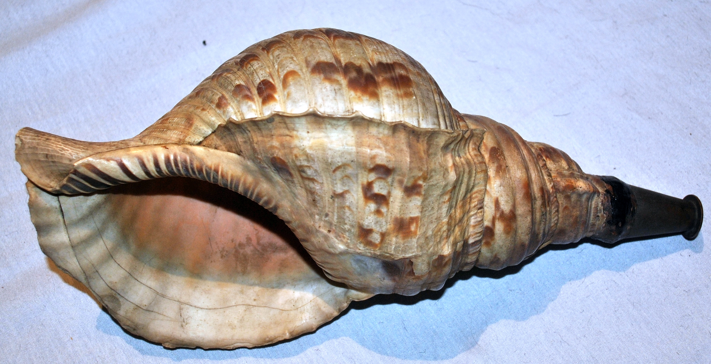 Antique Japanese horagi (conch shell trumpet).